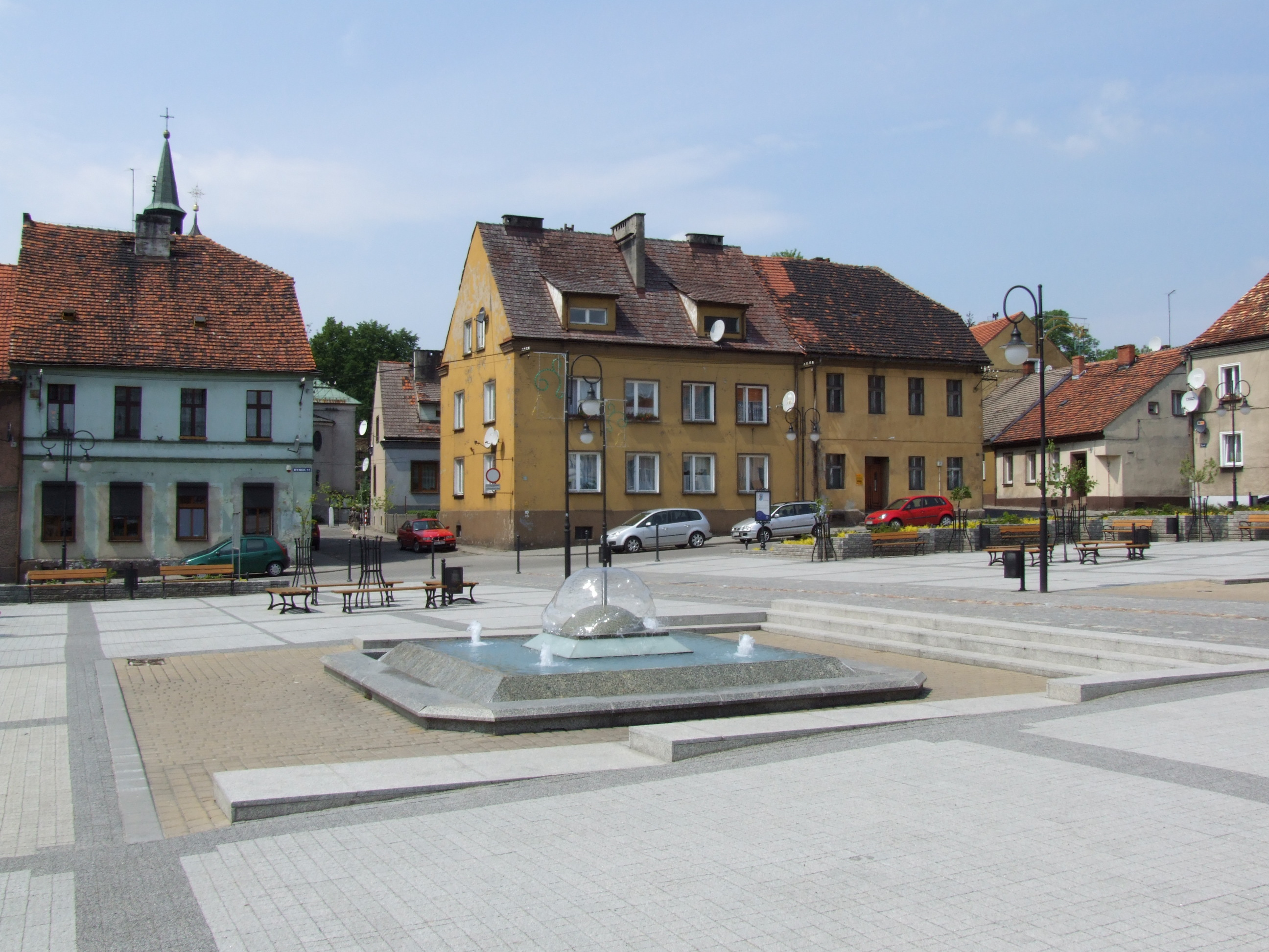 Market square in Toszek